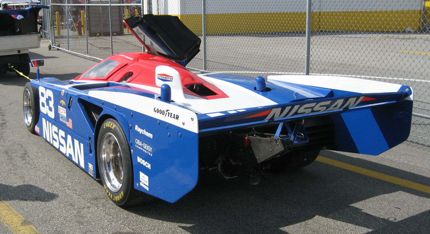 Nissan GTP ZX-Turbo chassis ZXT-8805